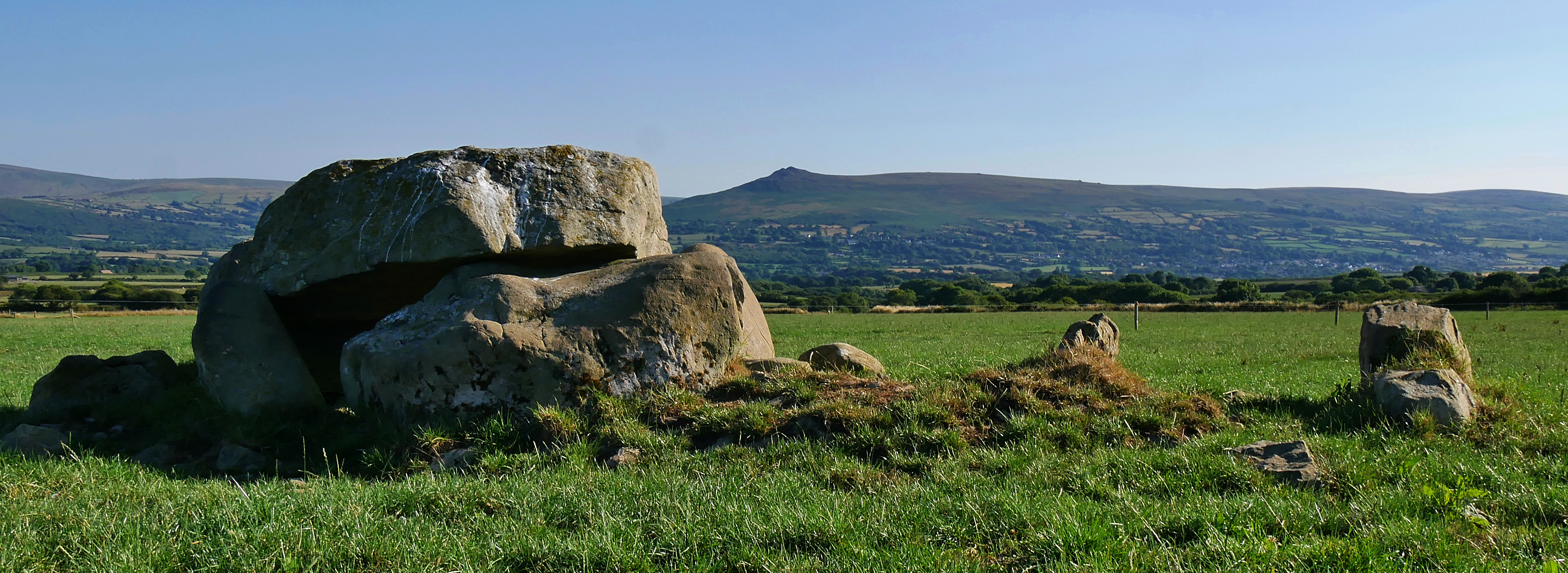 Trellyffaint Dolmen